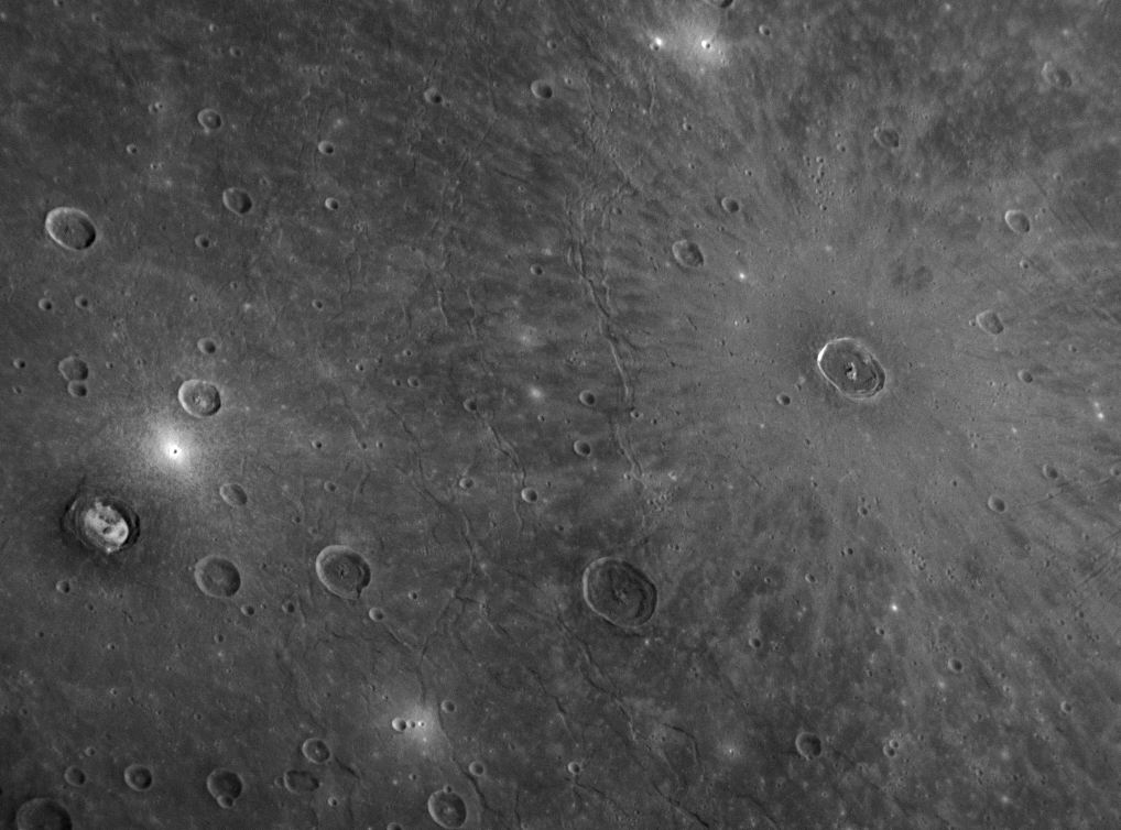 Mercury's giant Caloris basin is the best-preserved large impact basin known on Mercury, and the high density of craters on its floor indicates that the basin is fairly old and probably formed about 3.8 billion years ago. This NAC image shows an area on the plains that partially fill the Caloris basin floor. On the right portion of this image, the light-colored rays emanating from Cunningham crater (named for the American photographer Imogen Cunningham) show that this crater is relatively young; bright ejecta rays tend to darken with time, as the ejected material is gradually modified by impacting micrometeoroids and solar particles (a suite of different processes that together are called “space weathering”). Relative age relationships such as this one are used to unravel Mercury's geologic history. The similar-sized Kertész crater is also visible on the left side of this image.